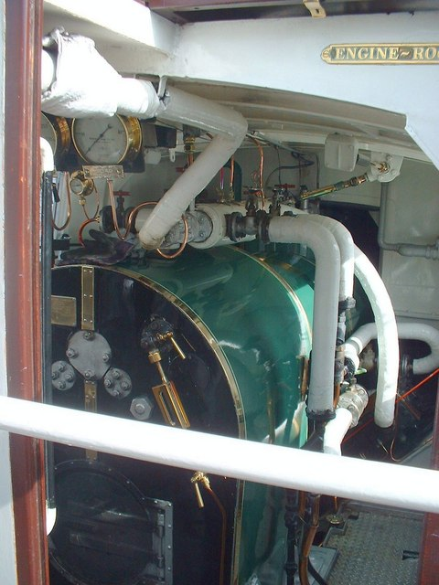 Gondola steam boiler View of working steam boiler inside the gondola yacht on Coniston, our tenth wedding anniversary treat to each other.